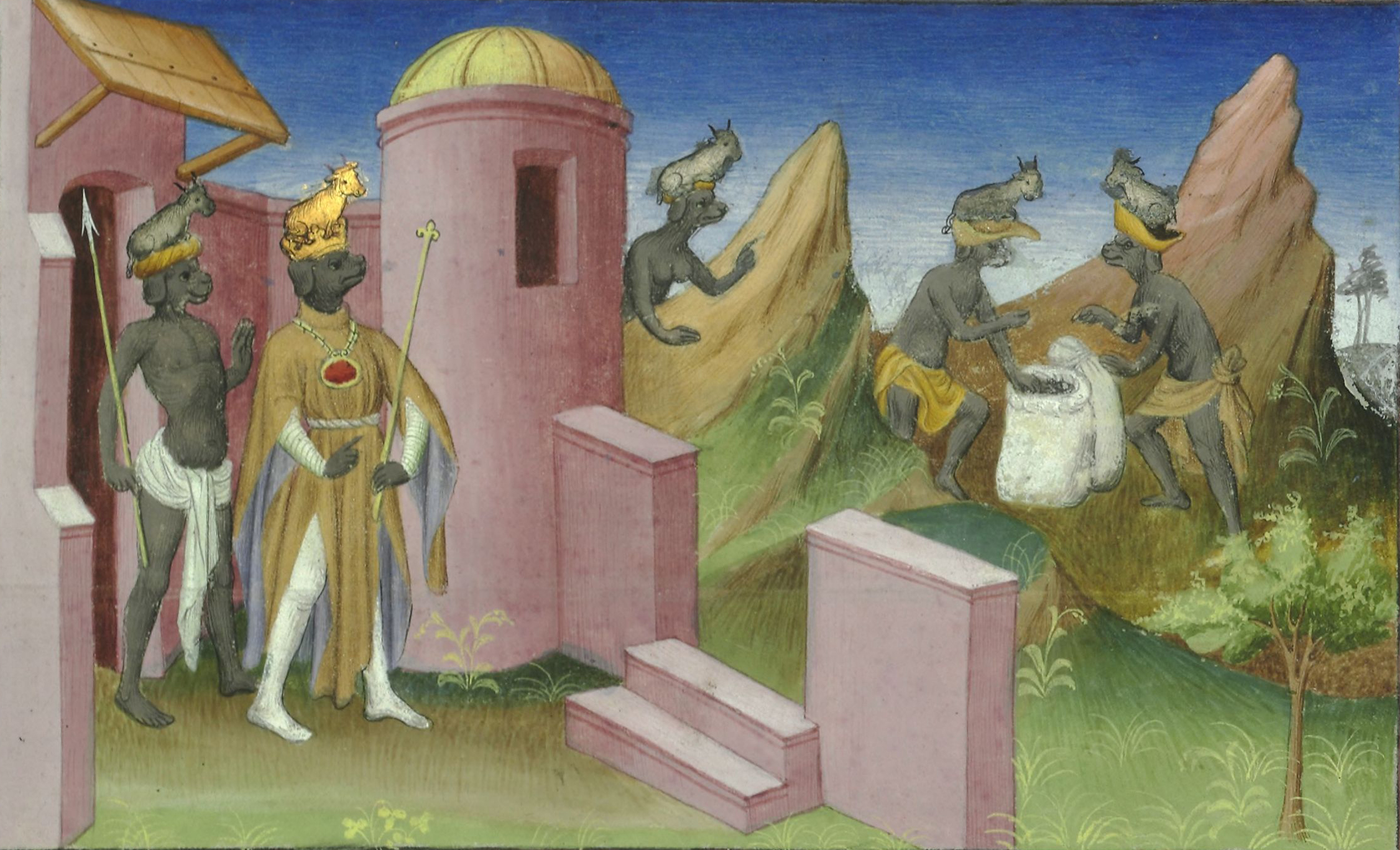 Cynocephaly of the Nicobar Islands. Itinerarium of Odoric of Pordenone.